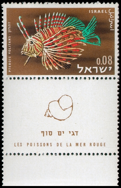 Red Sea Fish 1962 stamp - 0.08 Israeli lira - Pterois volitans (Red lionfish).